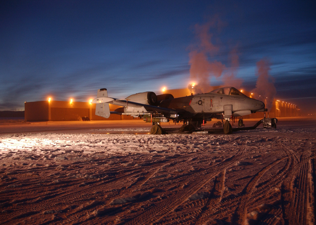 Eielson Air Force Base, Alaska -- An O/A-10 Thunderbolt II stands ready just before a training mission here Dec. 21. The aircraft is assigned to the 354th Fighter Wing and its primary missions include air-strike control, close-air support, target interdiction, joint-air attack, combat escort, and combat search and rescue.